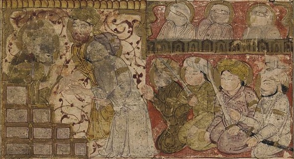 Folio from a Tarikhnama (Book of history) by Balami